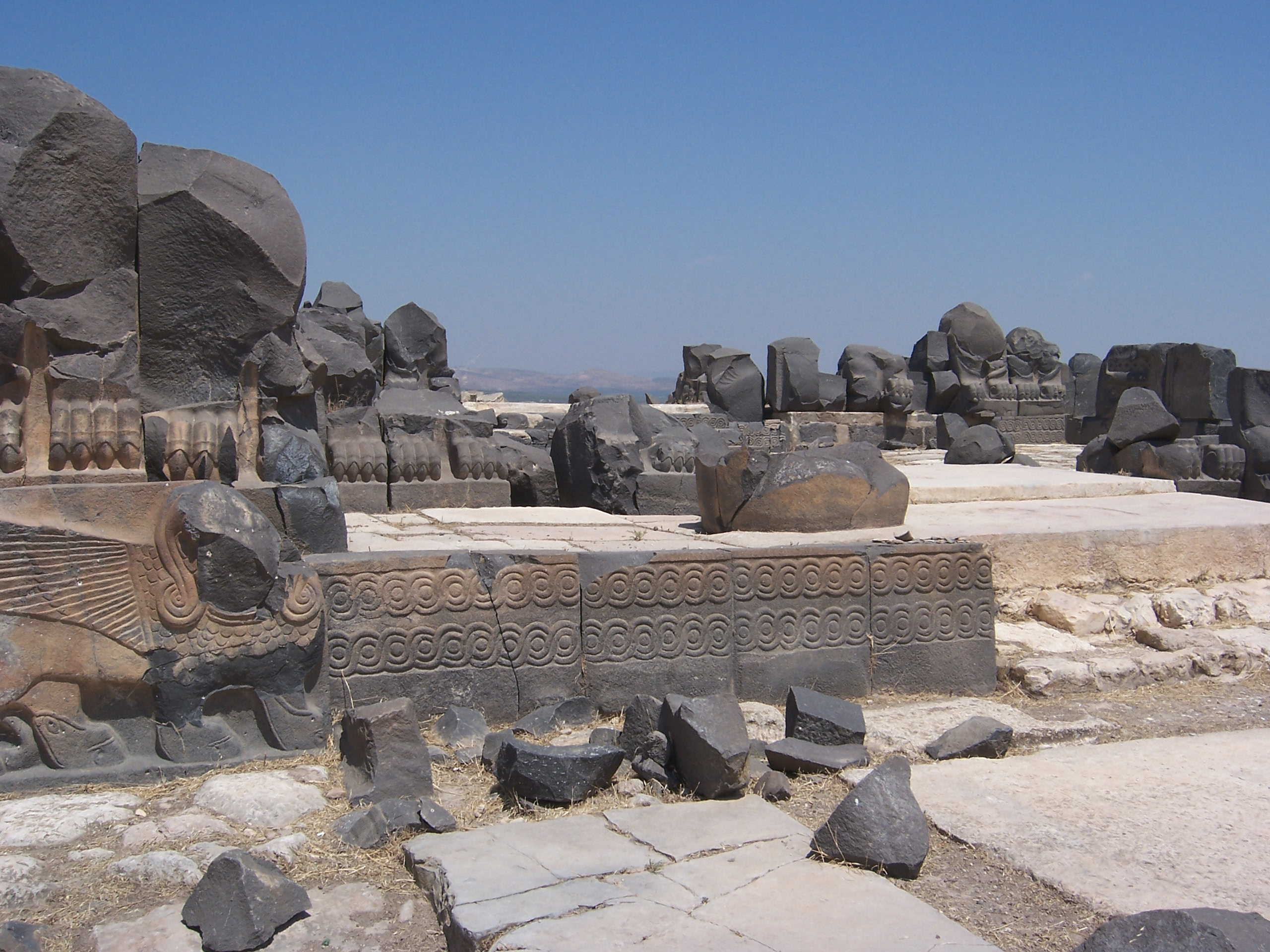 Ain Dara, located northwest of Aleppo, Syria, an Iron Age Syro-Hittite temple.